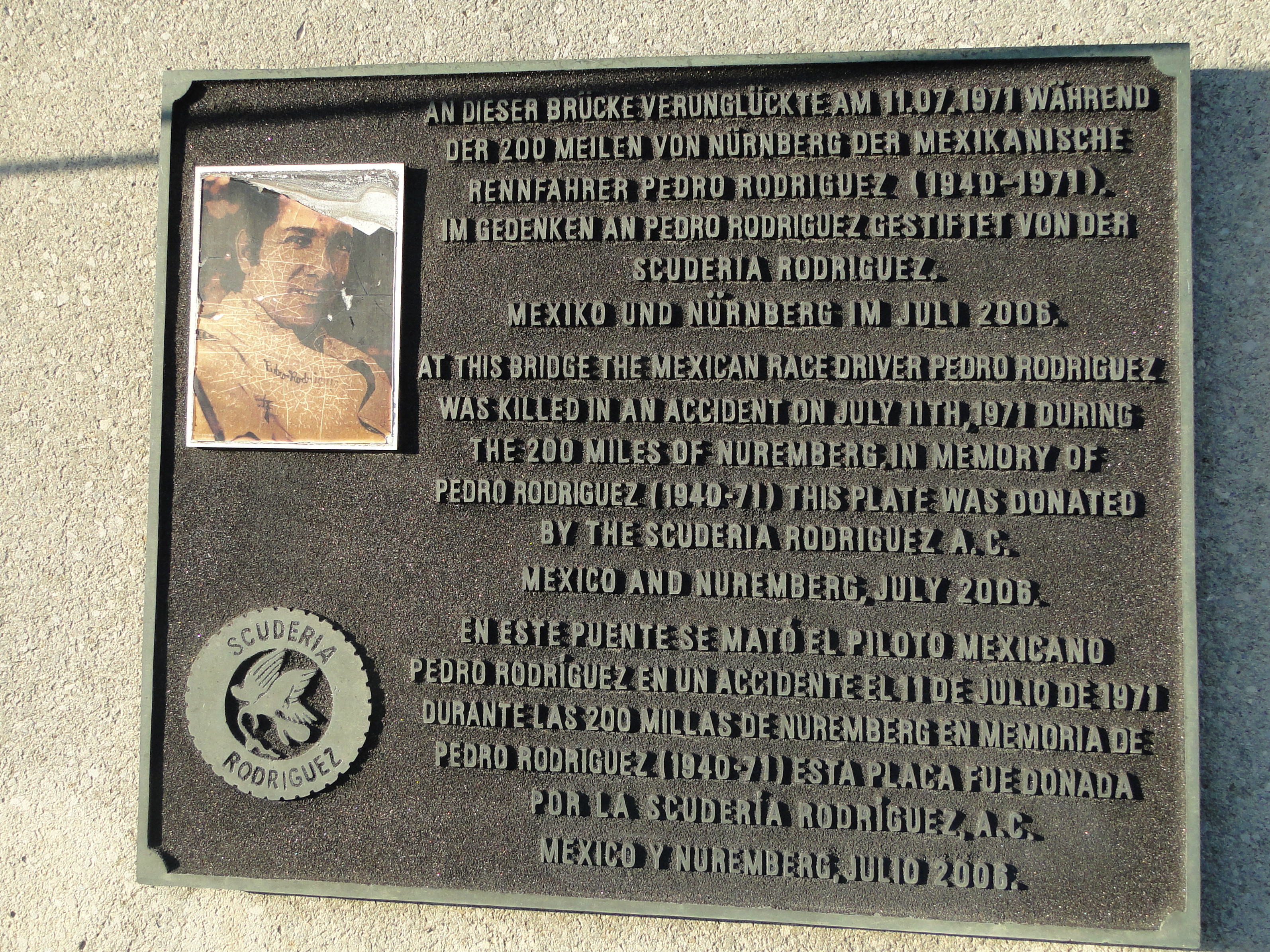 Commemorative plaque for Pedro Rodríguezat at the Norisring (Nuremberg, bridge parapet of Beuthener Straße over Hans-Kalb-Strasse)